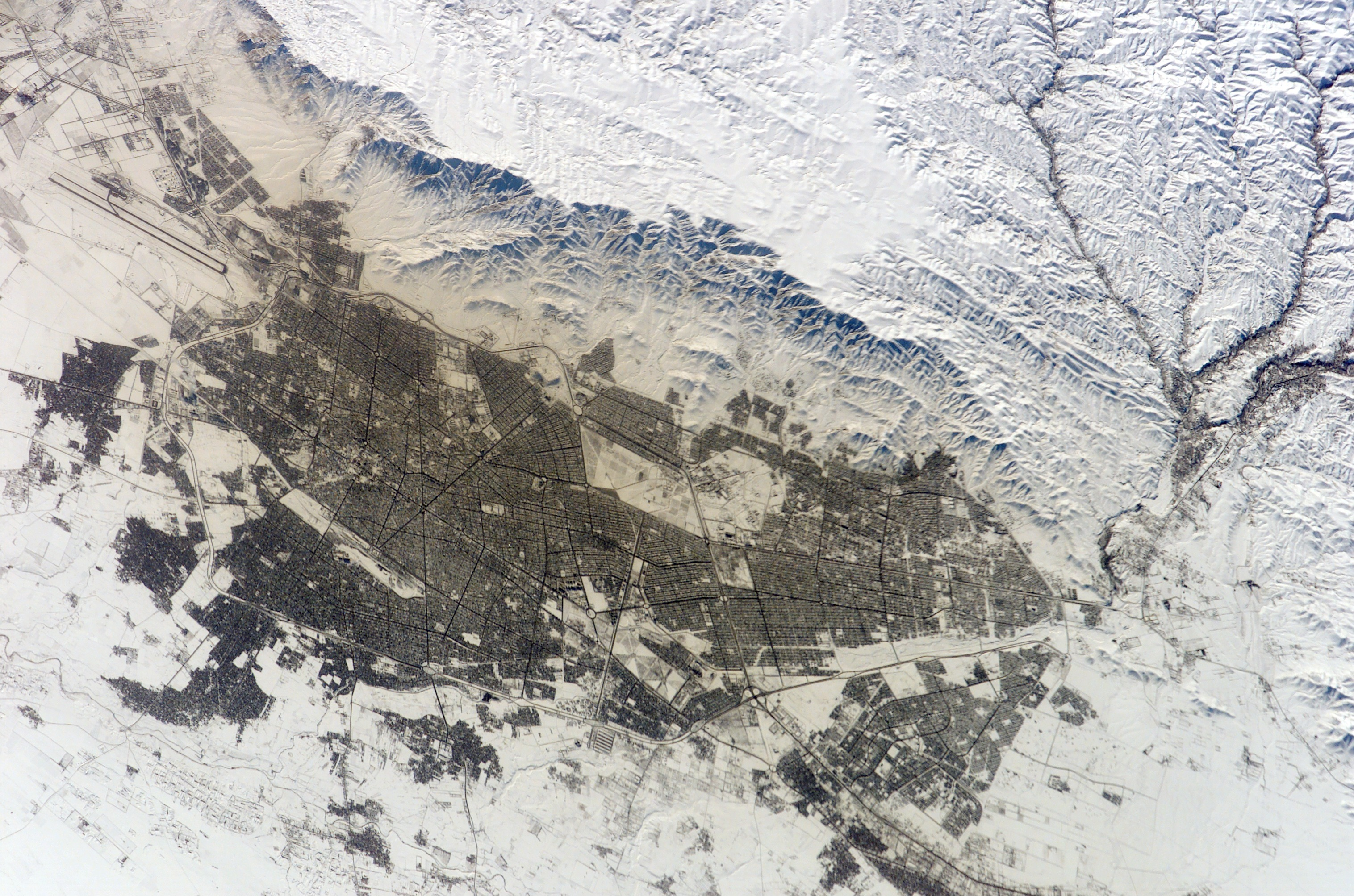 Mashhad, Iran - January 2003 note: this photo is upside down